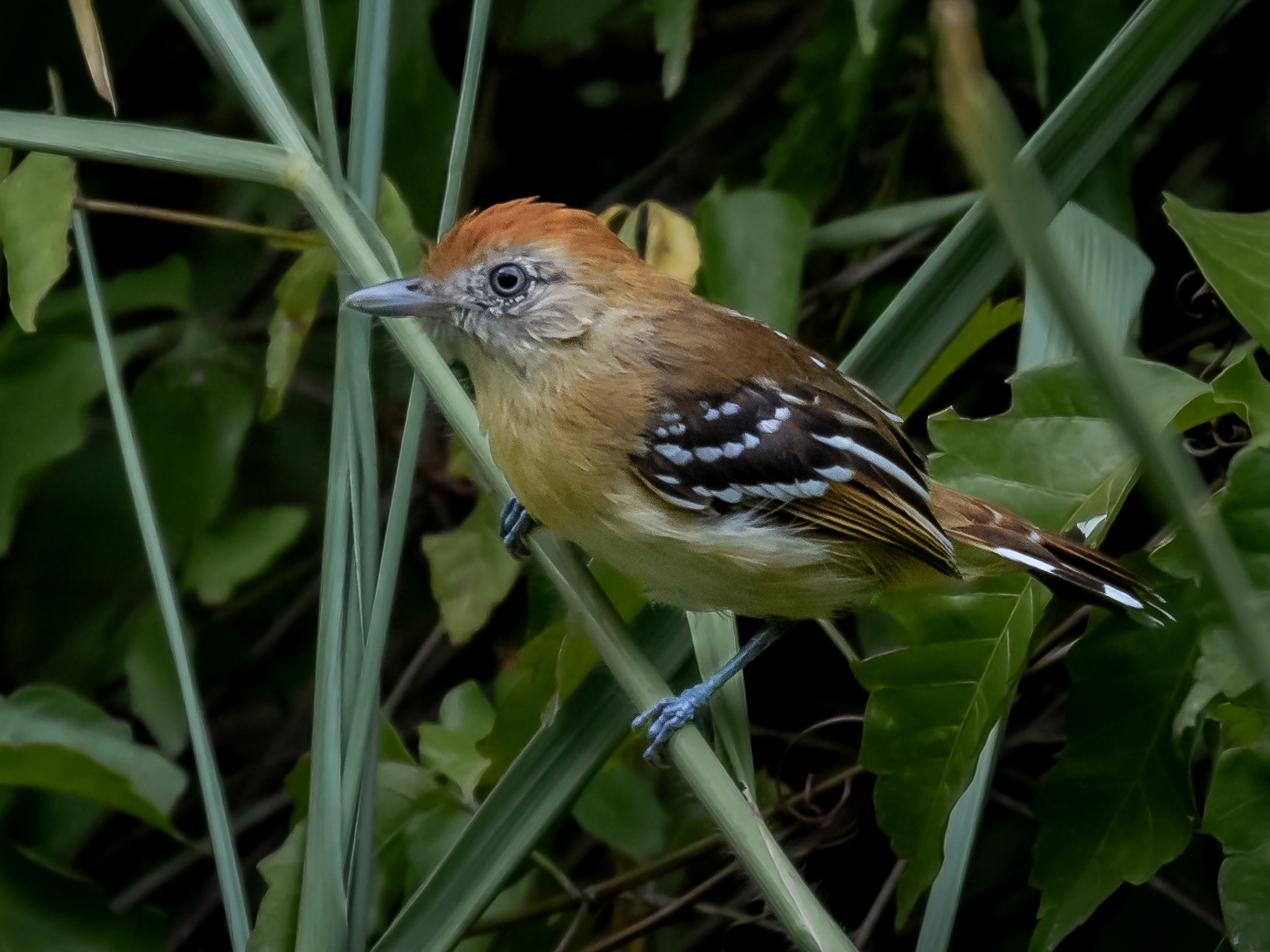 Bolivian slaty-antshrike, female; Ladário, Mato Grosso do Sul, Brazil